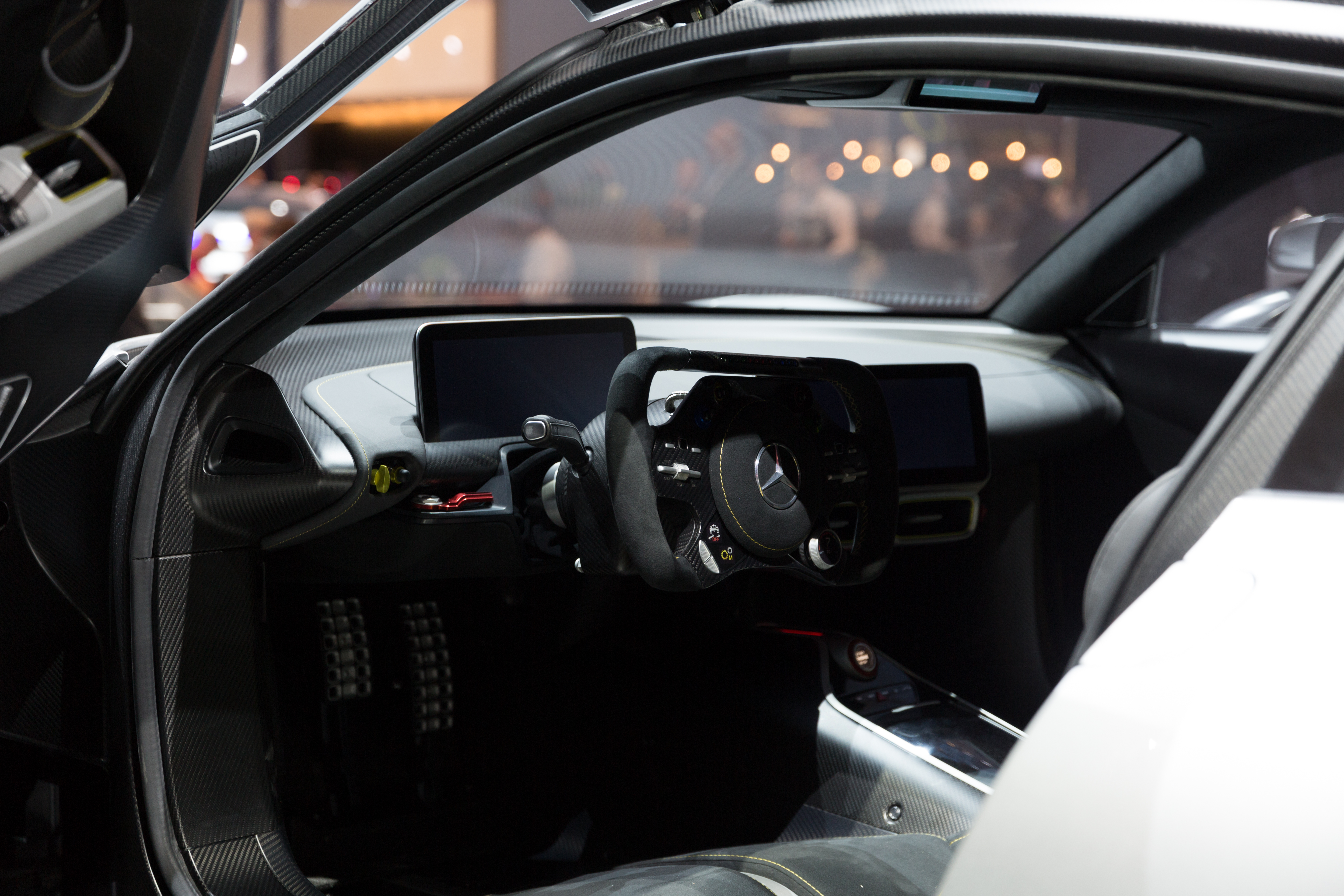 Mercedes-AMG Project One, IAA 2017